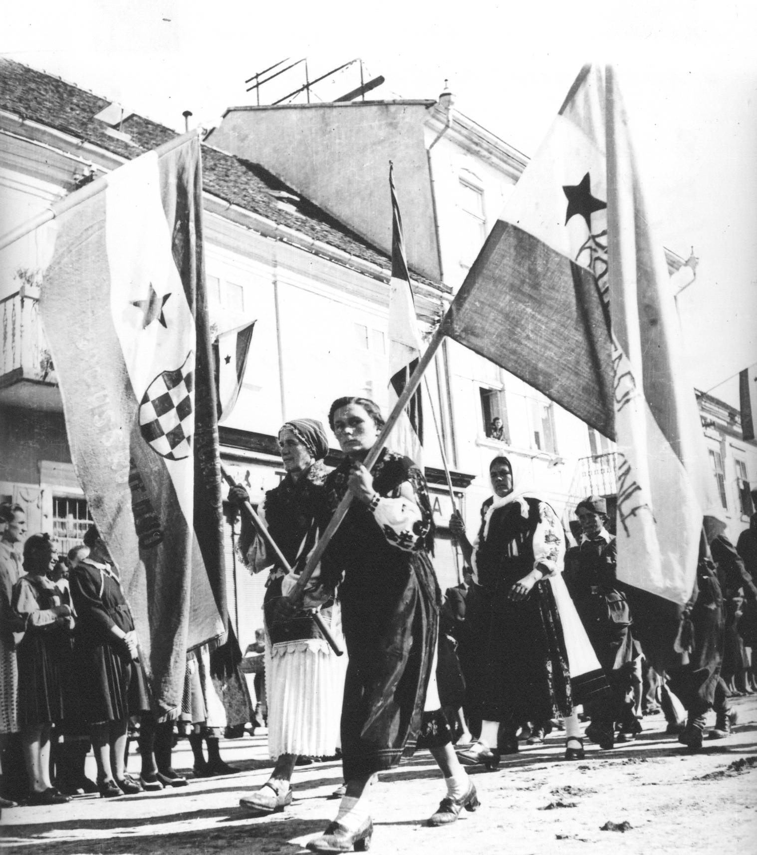 Members of the Antifascist Women's League at public rally in Slavonska Požega, 17 September 1944.